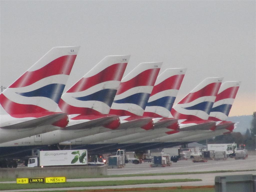 Tails of British Airways Jumbos lined up near terminal 5 at Heathrow